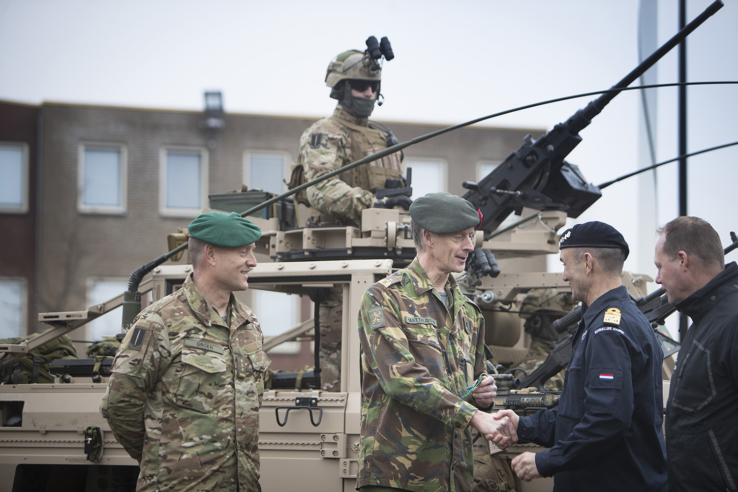 Rear admiral De Waard (director of DMO (Defence Material Organization) transfers the first Vector jeep for the Dutch Special Forces to the deputy commander of the Dutch Landforces, general-major Matthijssen, by handing over the car keys. Matthijssen passed the keys on to the Commander of the Dutch special forces, colonel Groen.